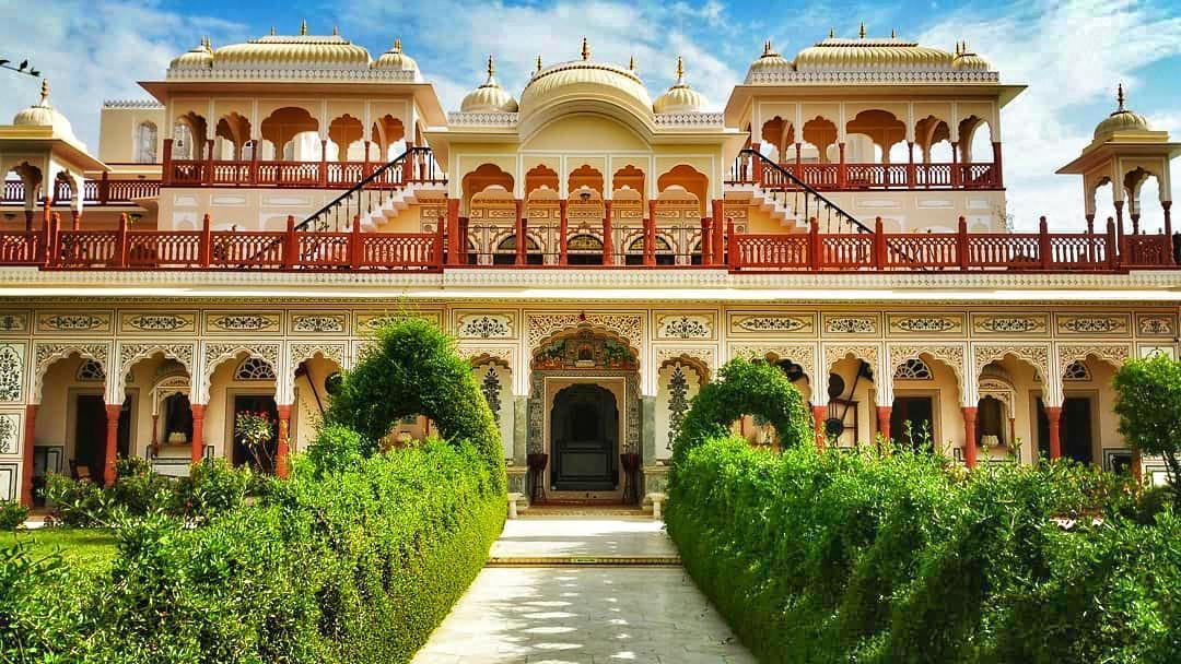 Front Facade Picture of Shahpura Haveli, Shahpura, Shekhawati, Rajputana 300 year old Haveli of Shahpura Royal Family, Shahpura being the Head Seat of Shekhawat Clan.